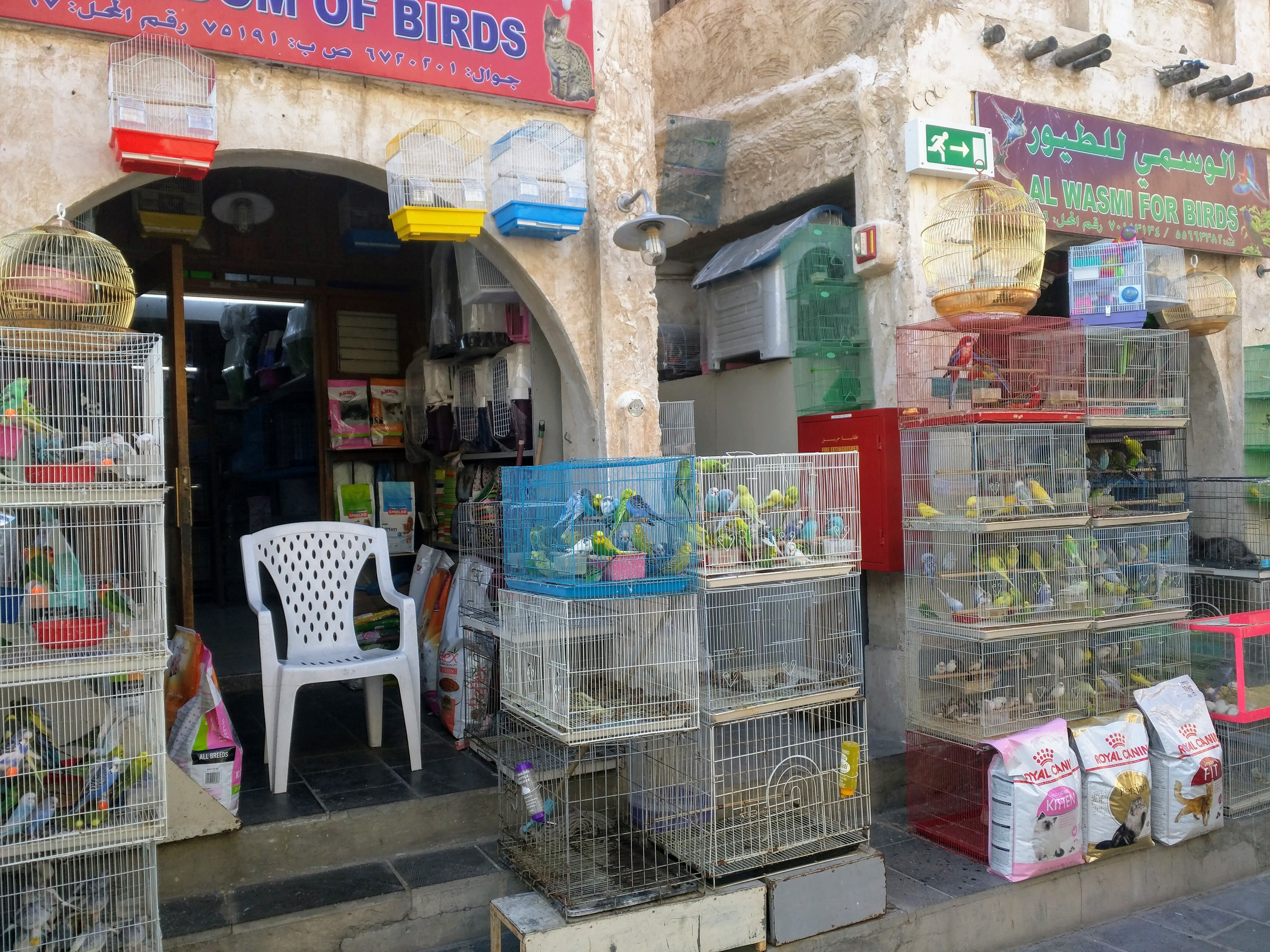 Bird shop in Souq Waqif